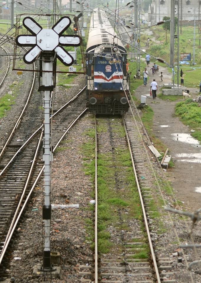 Passenger train at Muzaffarpur Junction. (After electrification)